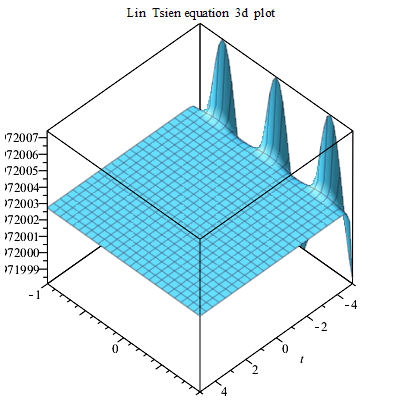 Lin-Tsien nlpde 3d plot